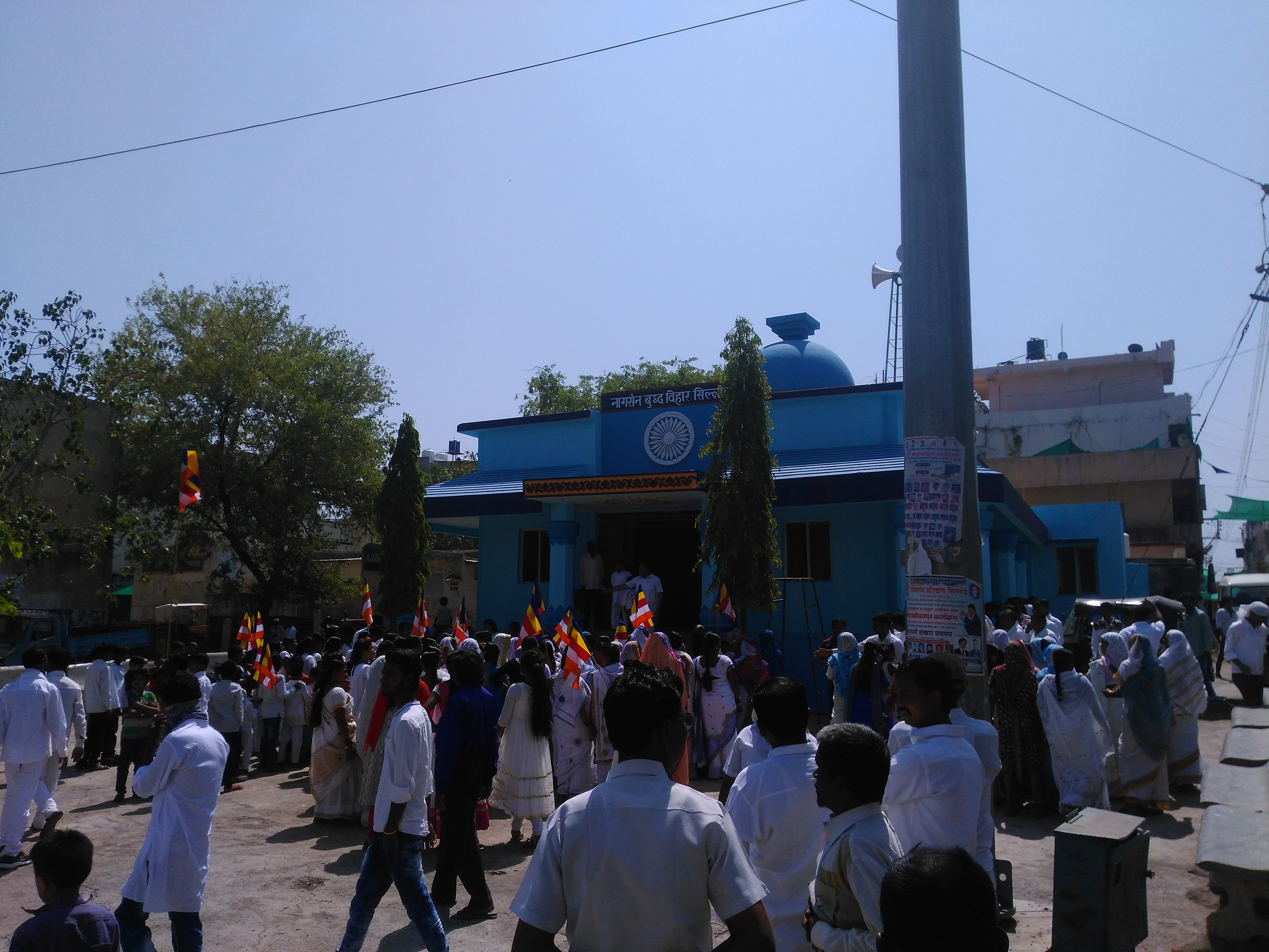 Nagsen Buddha Vihara at Sillod city, Jalna district, Maharashtra